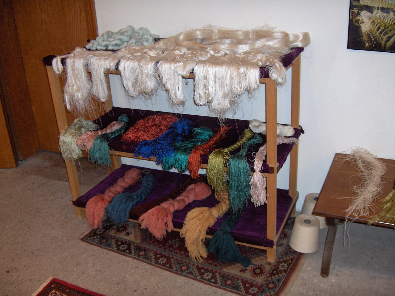 Silk filaments after dyeing; Hadosan, Urgüp, Cappadocia, Turkey